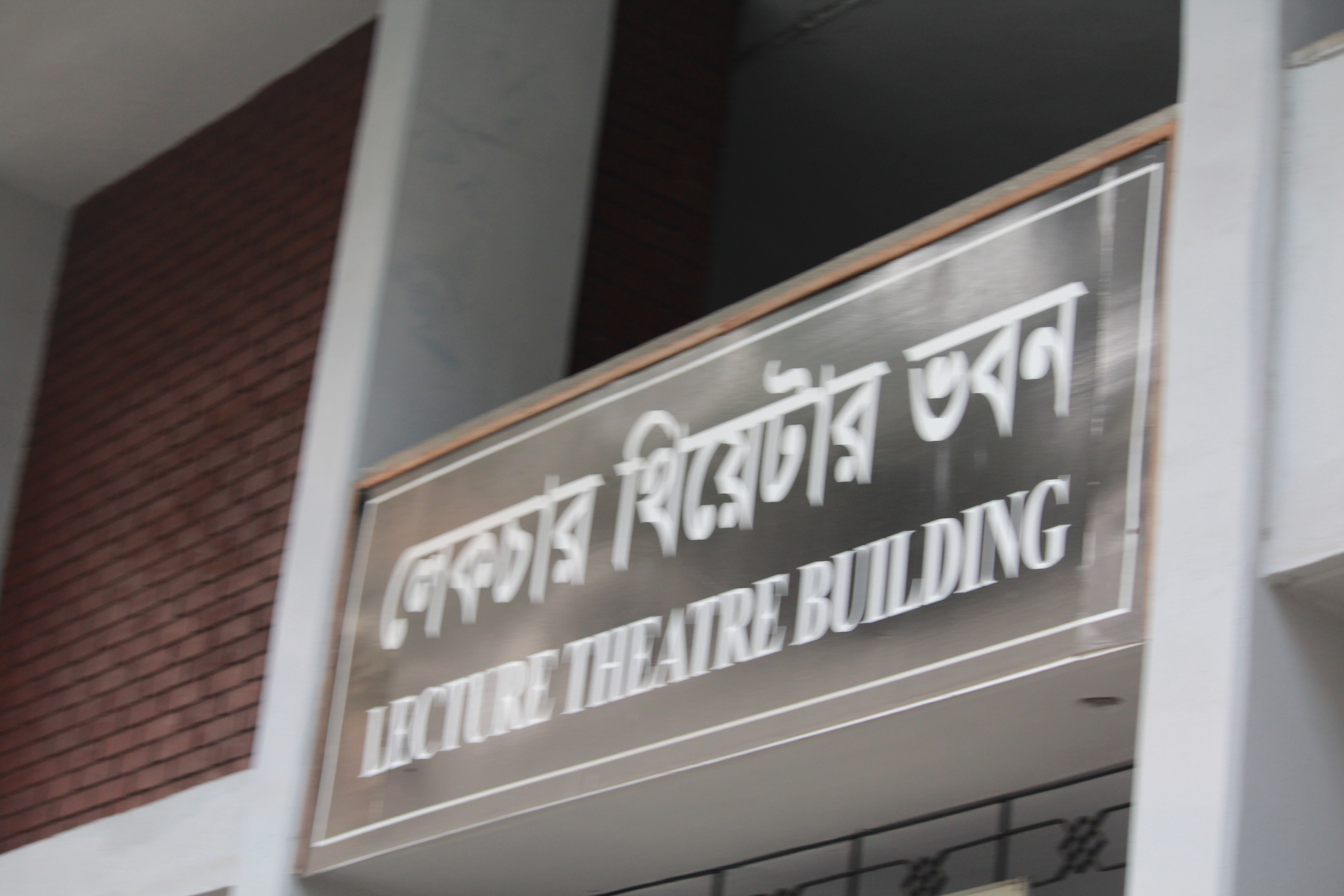 Lecture Theater Building of University of Dhaka